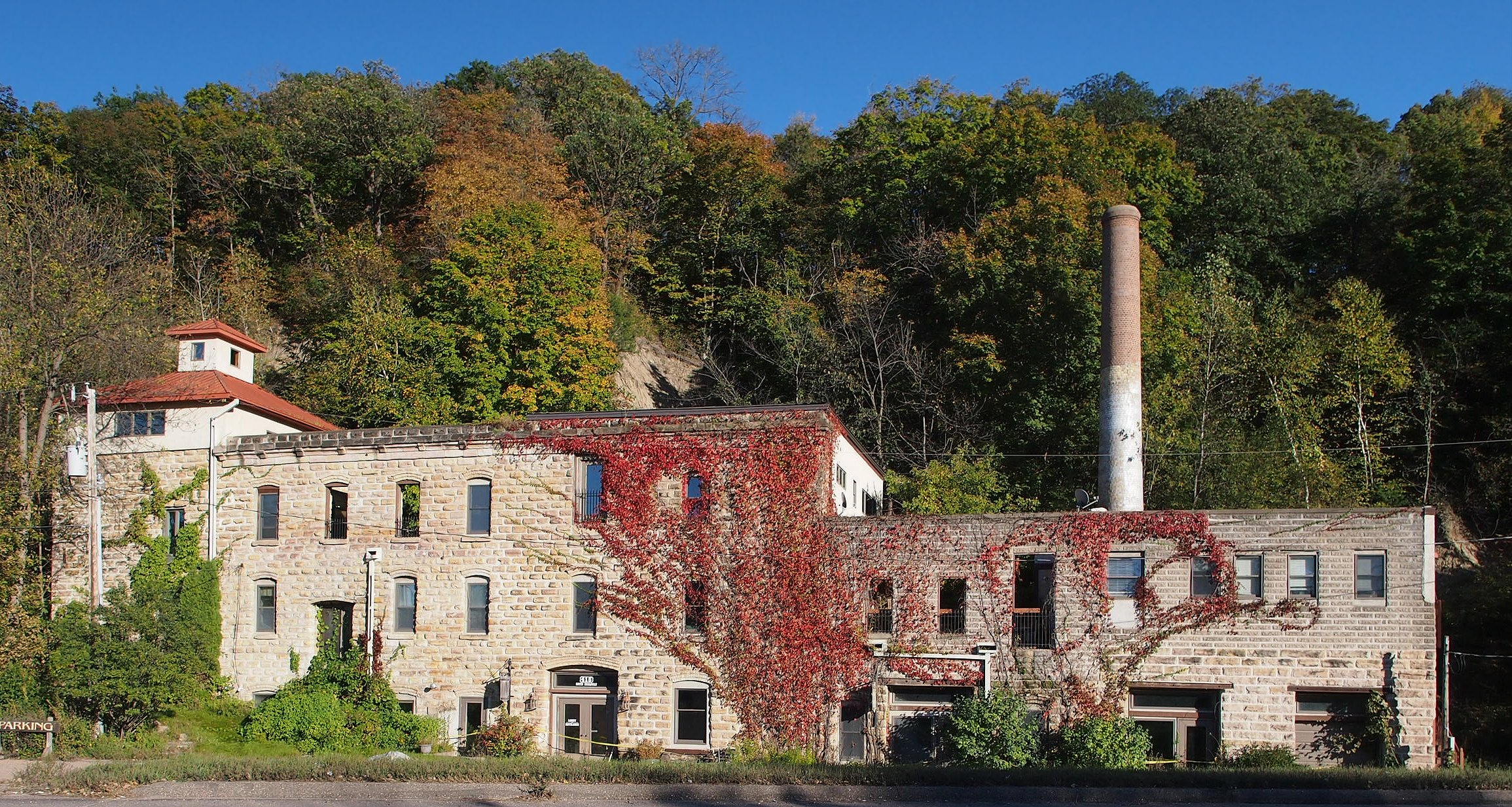 Jordan Brewery Ruins, Jordan, Minnesota, USA. Viewed from the west-northwest.